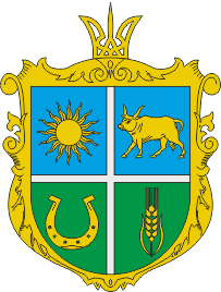 Flag of Lenkivtsi Rural Amalgamated Hromada, Khmelnytskyi Oblast, Ukraine